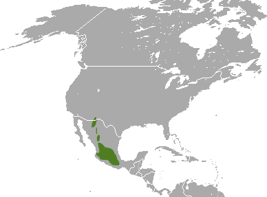 White-sided Jackrabbit (Lepus callotis) range